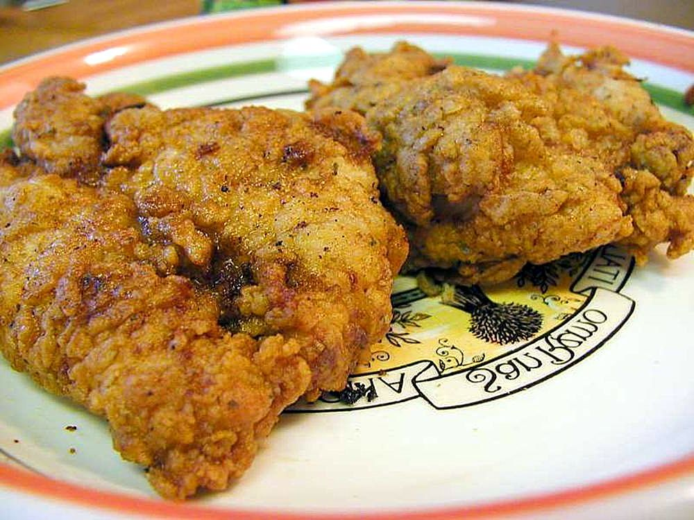 Image title: Fried chicken Image from Public domain images website